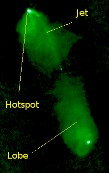 Radio galaxy 3C98, labelled to show features. Made by uploader.